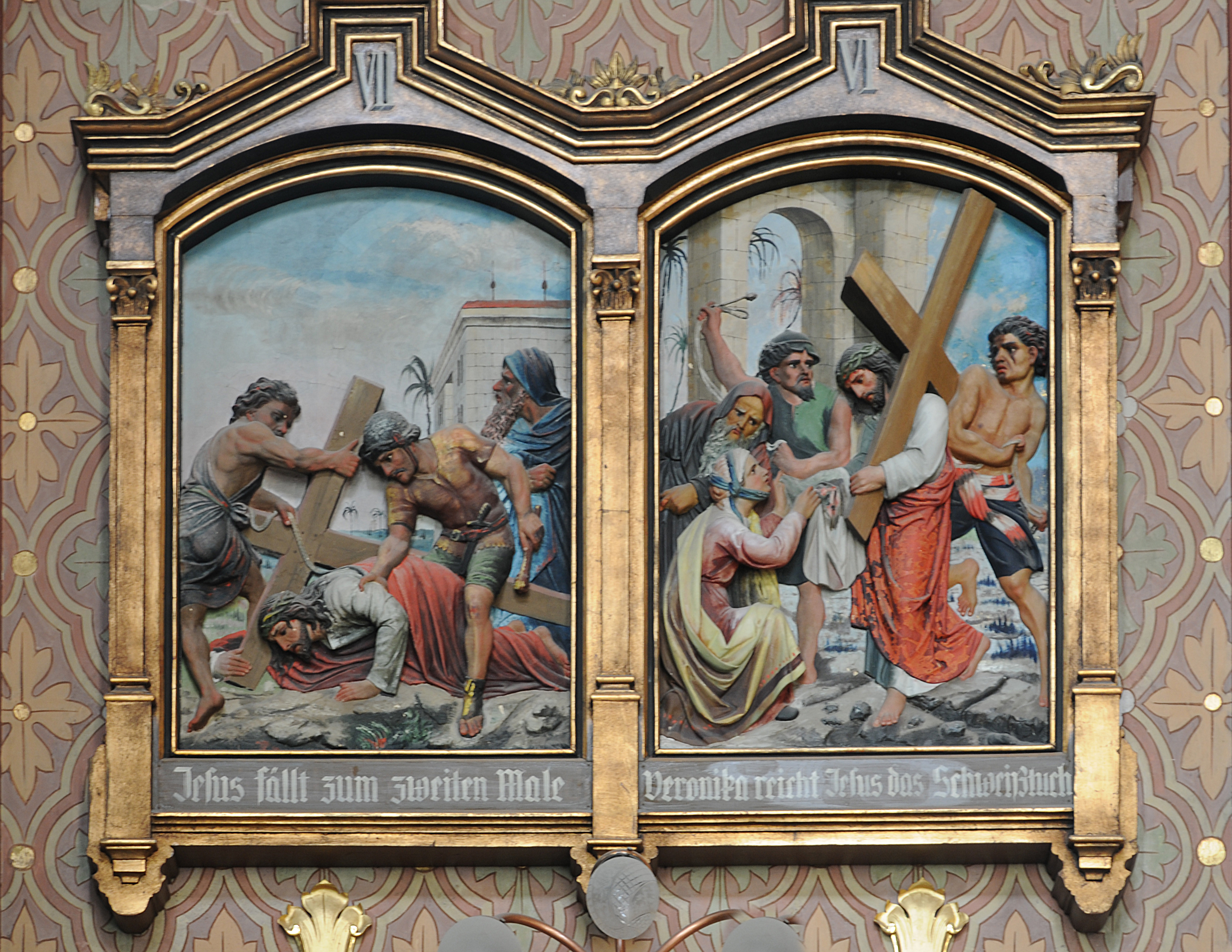 Stations or the cross by Ferdinand Demetz St. Ulrich in Gröden - Ortisei Val Gardena Italy.